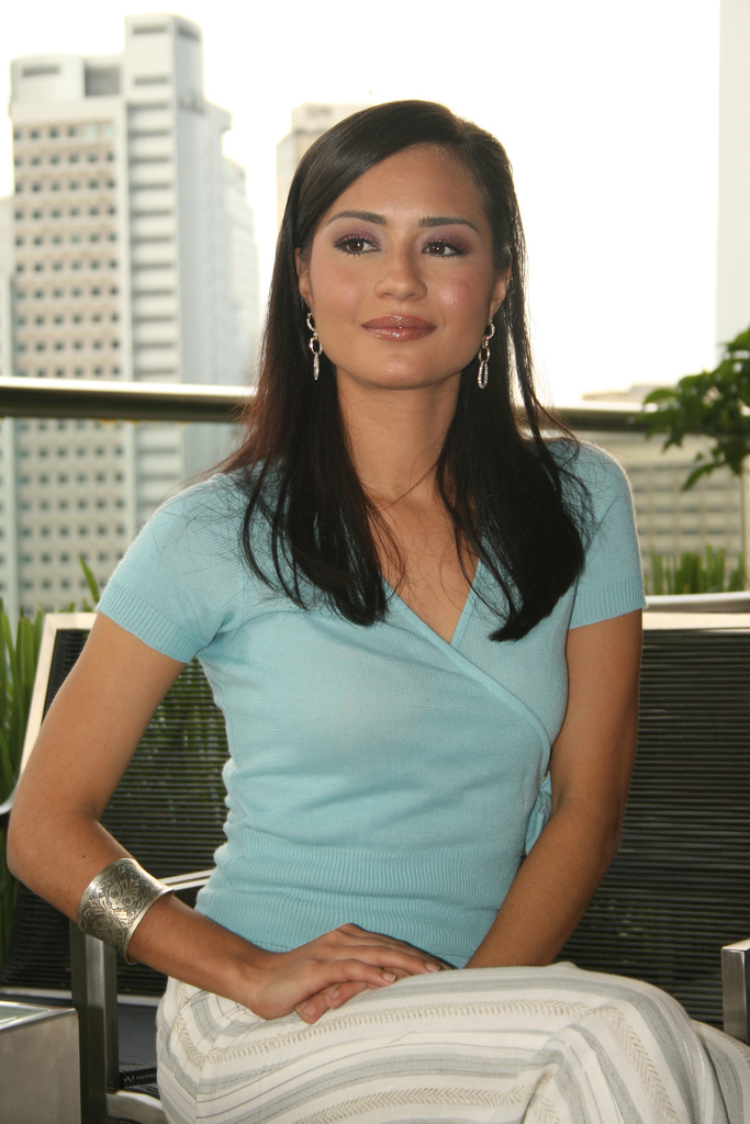 Maya Karin at Hotel Maya KL in Malaysia.